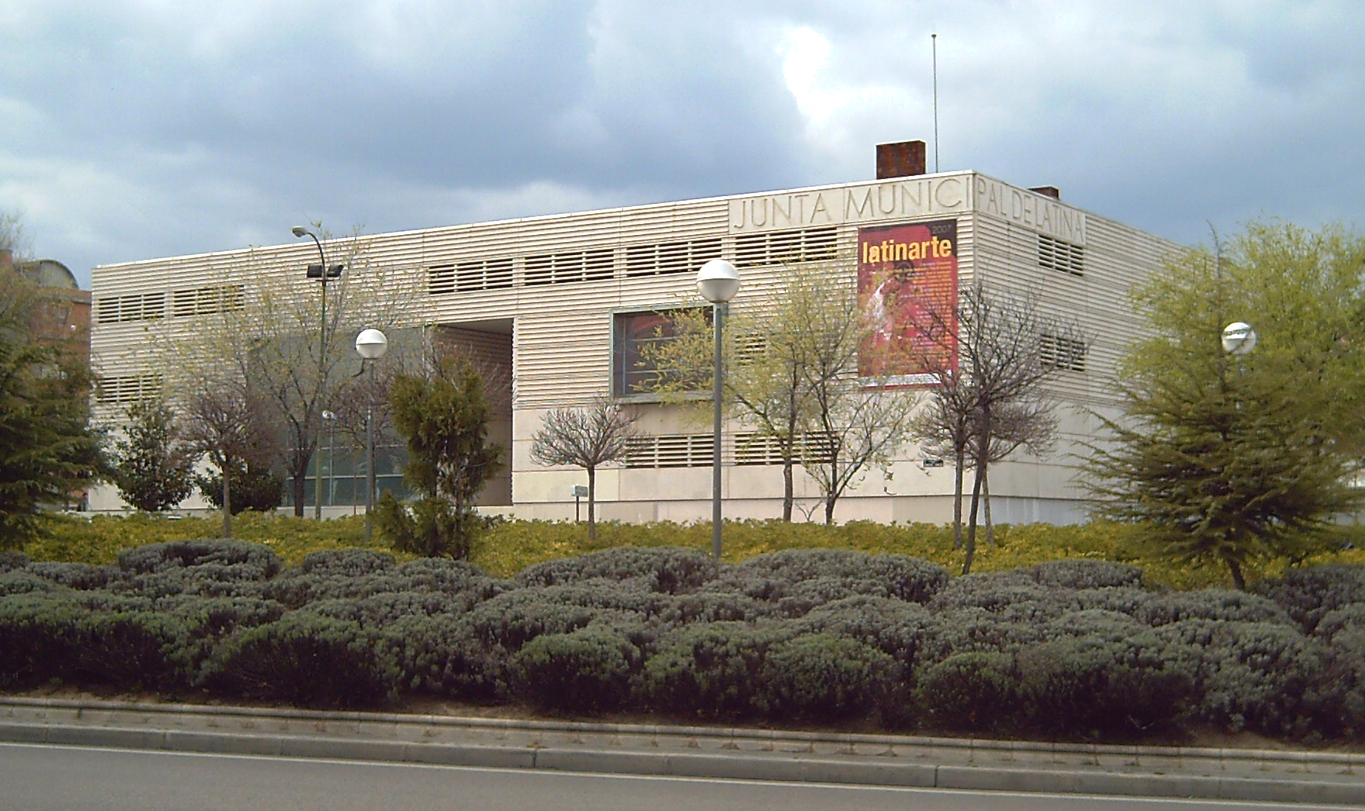 Latina district hall, in Madrid (Spain), at Avenida del General Fanjul (avenue). Building was projected in 1997 by architects Fuensanta Nieto and Enrique Sobejano, and built in 1999.